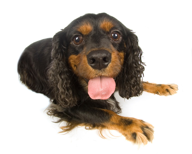 Studio Photograph of a Black and Tan Cavalier King Charles Spaniel